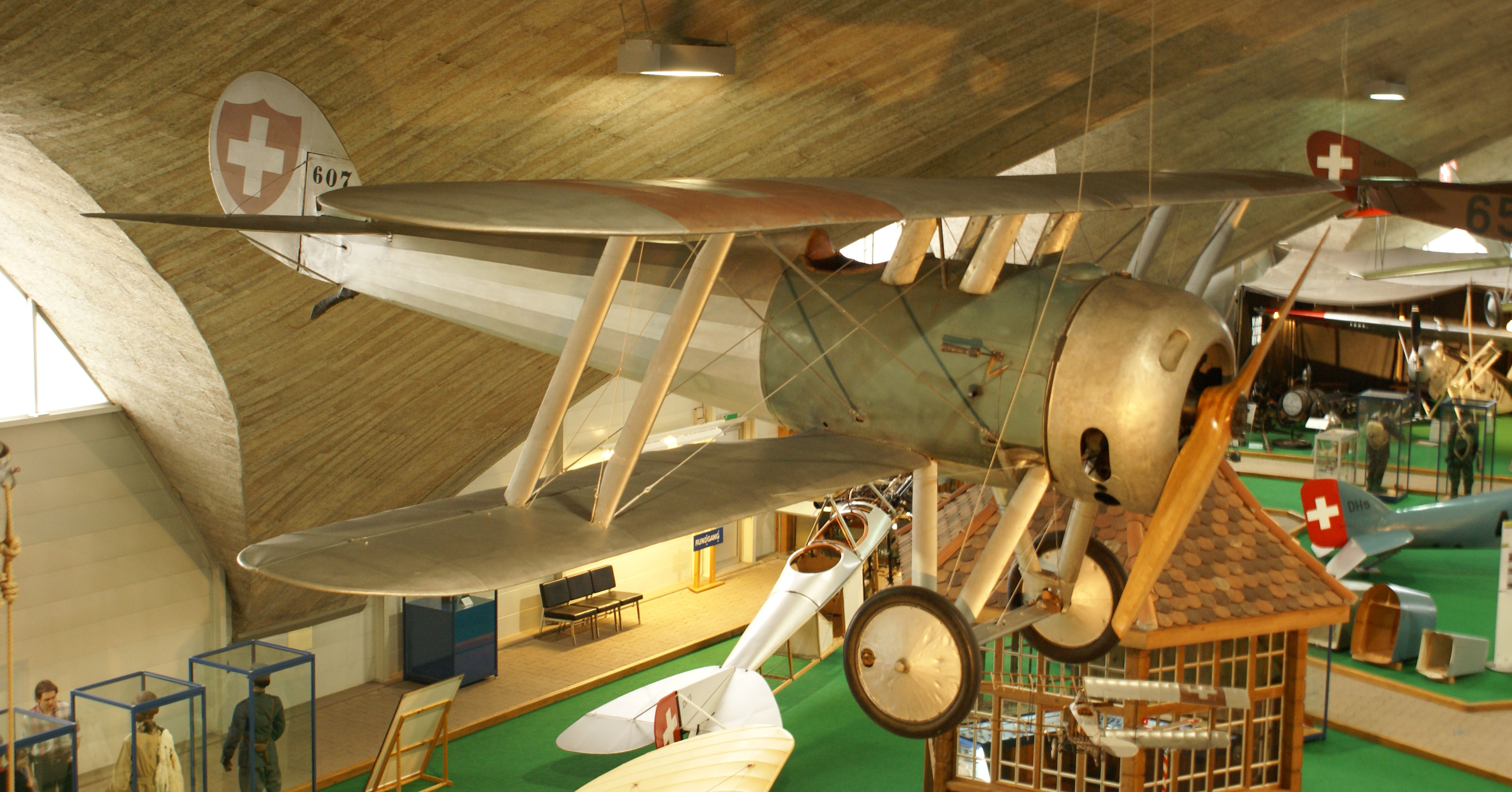 Nieuport 28 C-1 fighter aircraft, as used as a trainer by the Swiss Army Air Corps from 1918 to 1930.